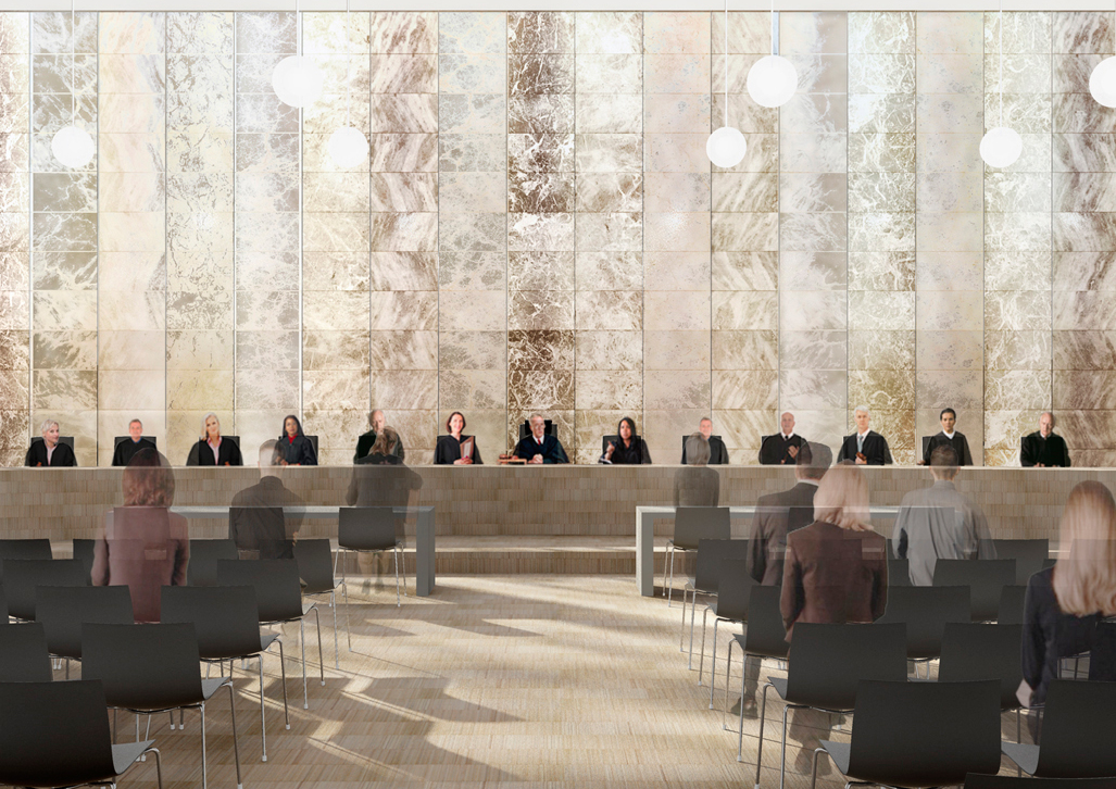 Supreme Court of the Netherlands: synthetic image of the large courtroom.